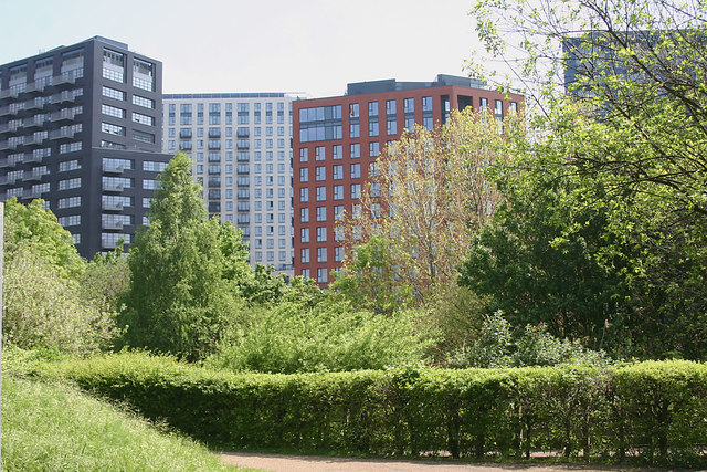 Recent developments on Leamouth Peninsula